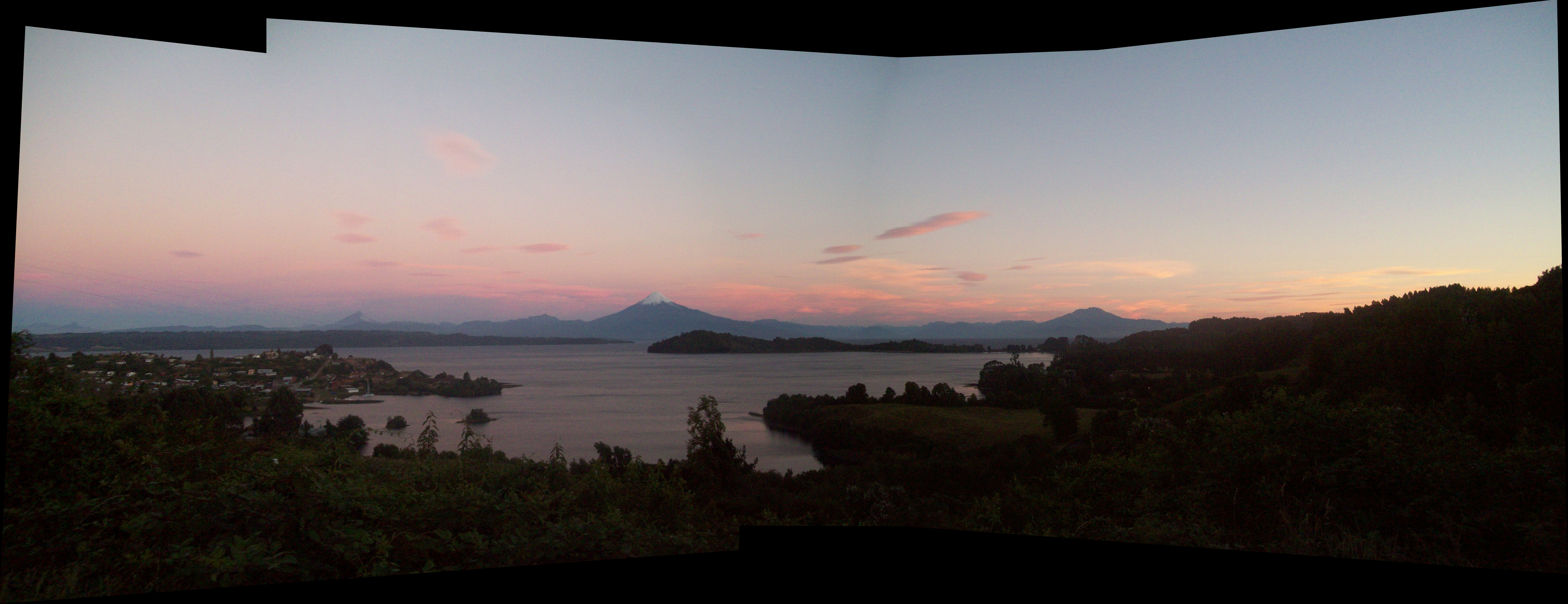 Puerto Octay, Andes Range and Centinela beach